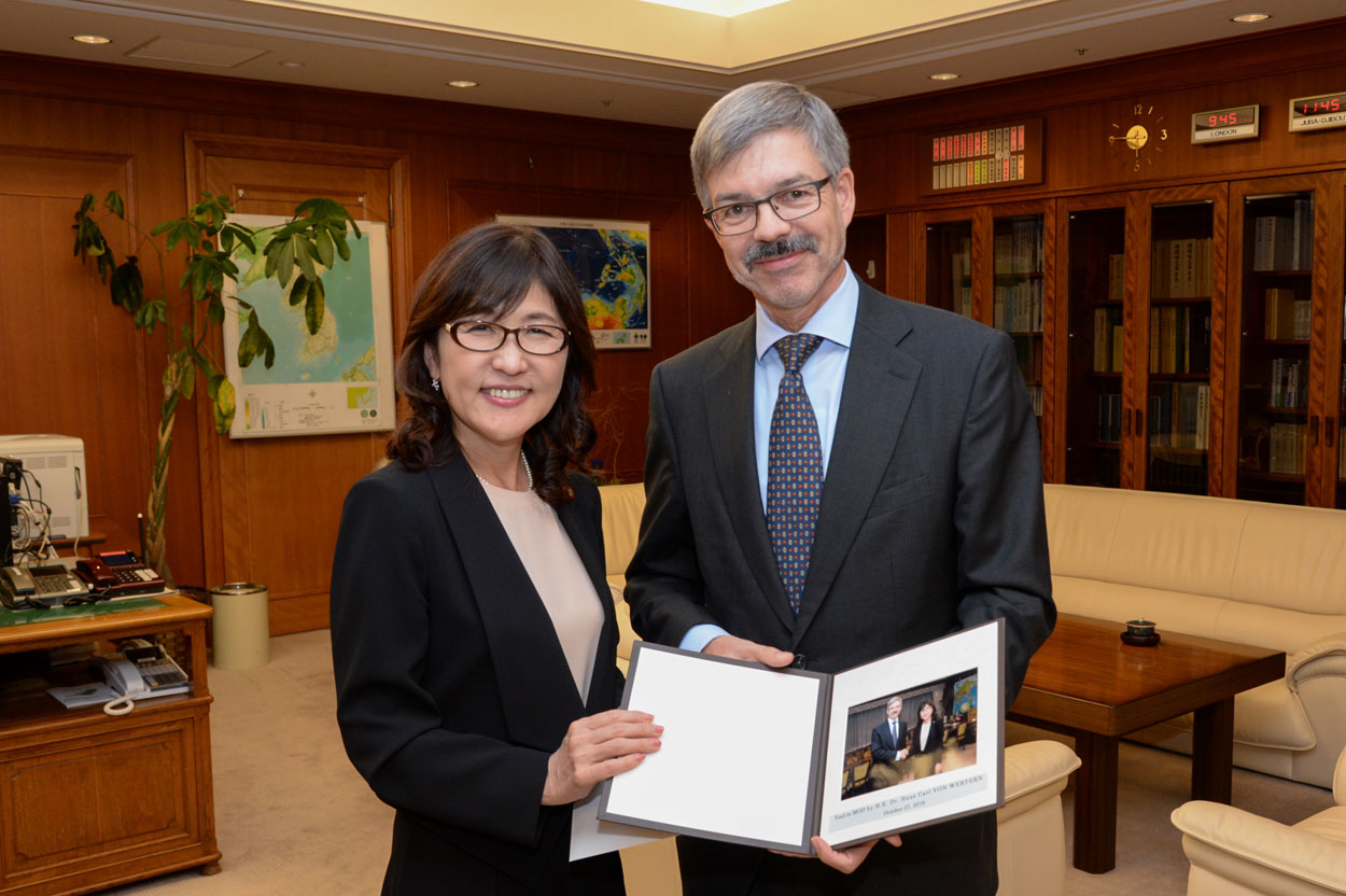 Courtesy Call by His Excellency Dr. Hans Carl VON WERTERN, Ambassador Extraordinary and Plenipotentiary of Germany to Japan (October 27, 2016 MOD)